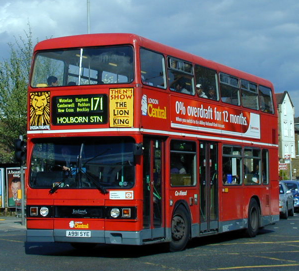 London Central bus T991 (reg. A991 SYE), pictured on Stanstead Road (part of the A205 South Circular) in Forest Hill, operating London Buses route 171 to Holborn station. Facing west, it's waiting to turn right into Brockley Rise (the B218) to head north into central London. The 1,051st production Titan, it's from the later batch built at Leyland's expanded factory in the Lillyhall Industrial Estate in Workington (earlier ones were built by British Leyland subsidiary Park Royal Vehicles in Park Royal, London). As with the vast majority of production, it was delivered new to London Transport as part of the dual-door T-class, allocated fleet number T991. It's picture here in the post-privatisation livery of Go-Ahead subsidiary London Central. By 2002 its regular service days were over and it was allocated to training duties, working out of Camberwell garage (code Q). It's subsequent history after that is unclear, with reports suggesting it passed to London tour operator The Big Bus Company in 2003, who converted it to an open top bus, also removing the centre door, although it's possibly been sent to the company's operation in Dubai without ever having been used in London.